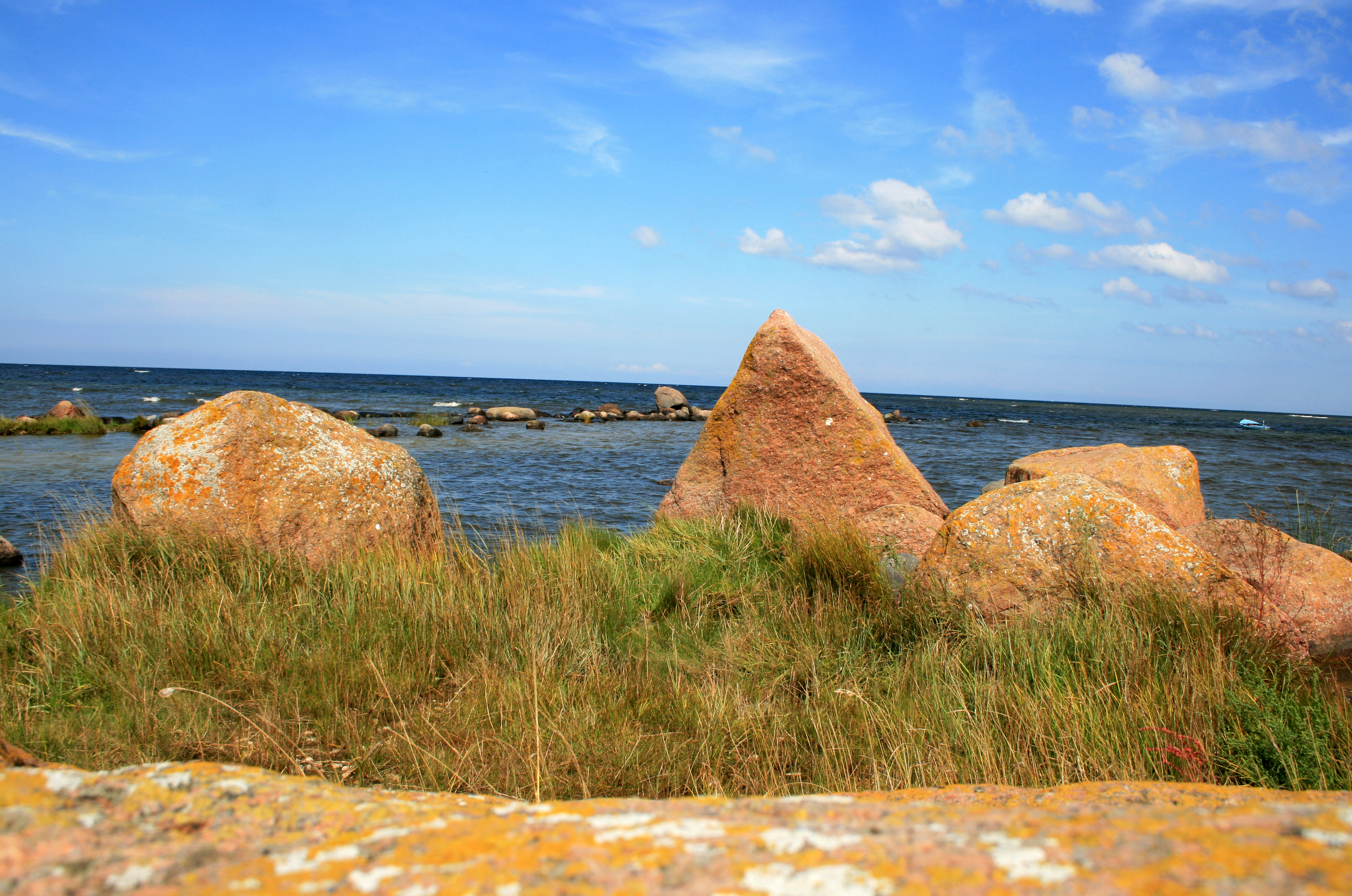 Estonia, Vormsi, Baltic Sea